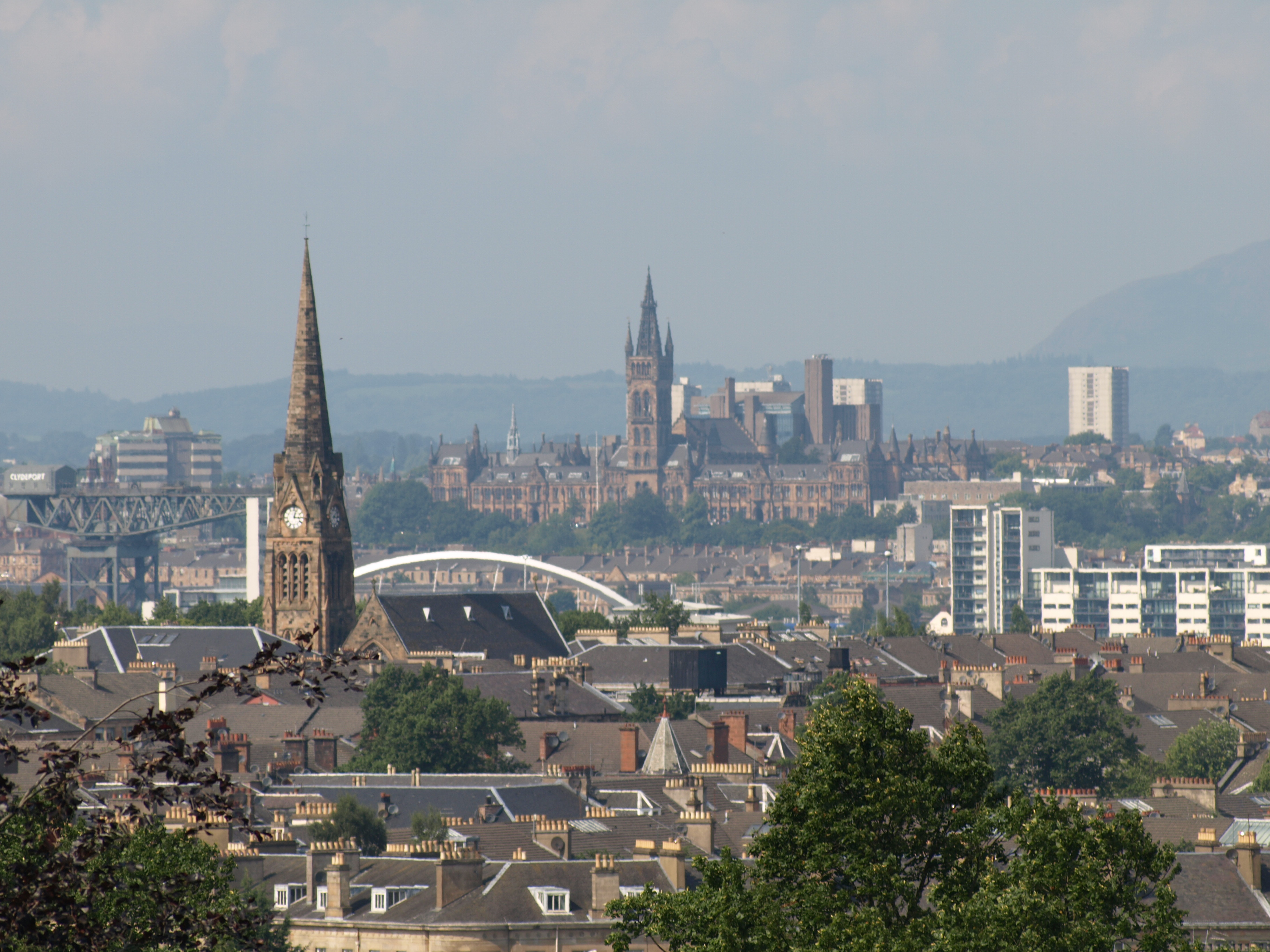 A view over Glasgow from Queen's Park in the city's south side. In this image Queen's Park Baptist Church, the main building and library buildings of the University of Glasgow, the Clyde Arc bridge, the Finnieston Crane, and the roofs of Glasgow tenements can be seen.